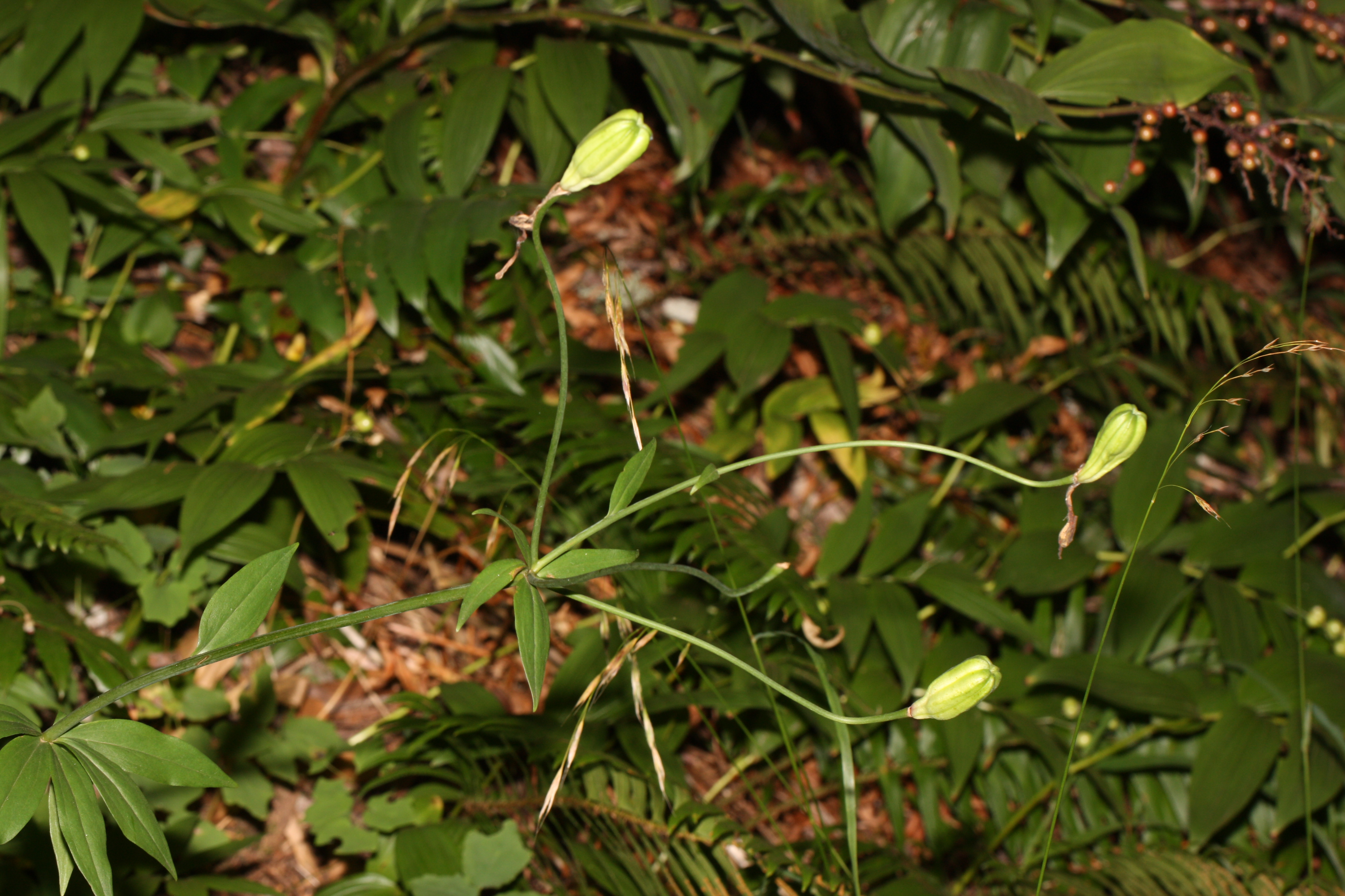 Columbian Lily